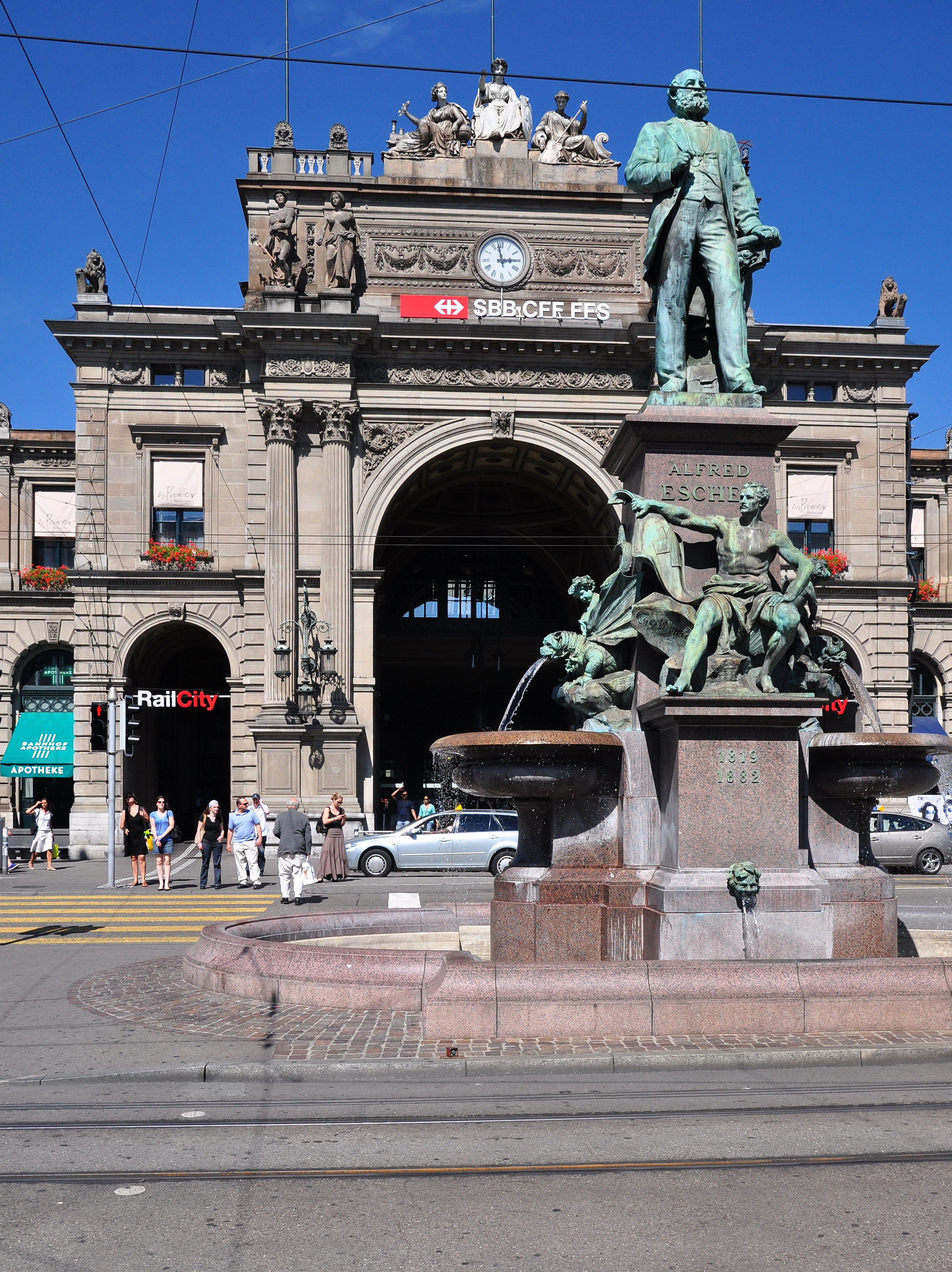 Alfred Escher monumental fountain, sculpted by Richard Kissling, on Bahnhofplatz situated at Hauptbahnhof in Zürich (Switzerland)